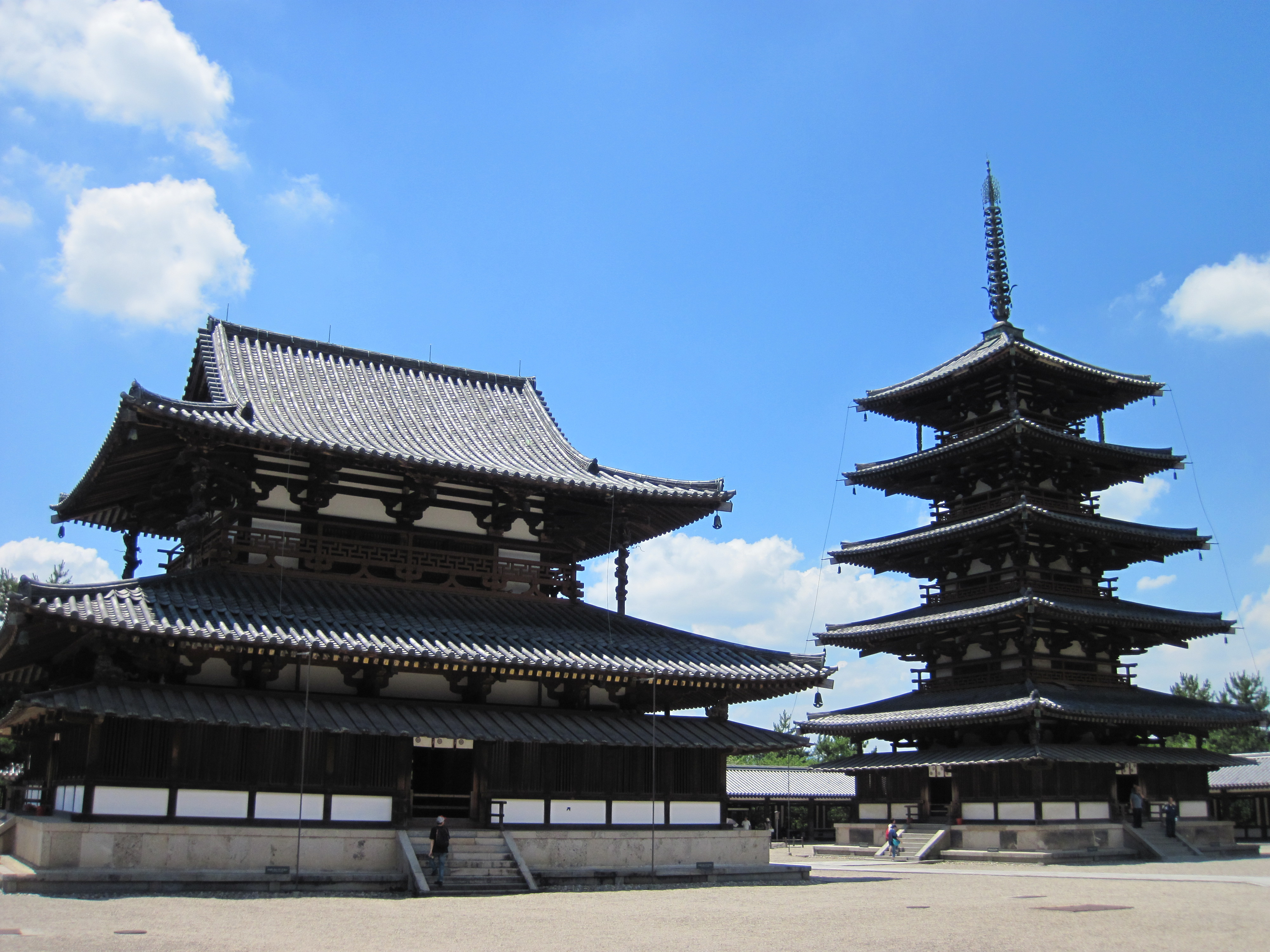 Horyu-ji National Treasure World heritage 国宝・世界遺産法隆寺